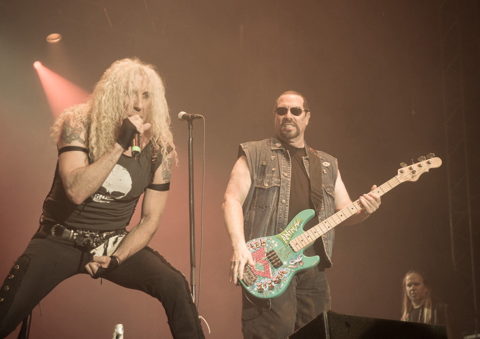 Twisted Sister performing at Norway Rock 2010